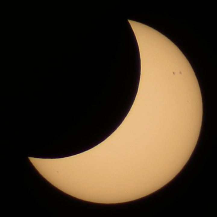 Partial Solar Eclipse April 29th 2014, seen from Adelaide